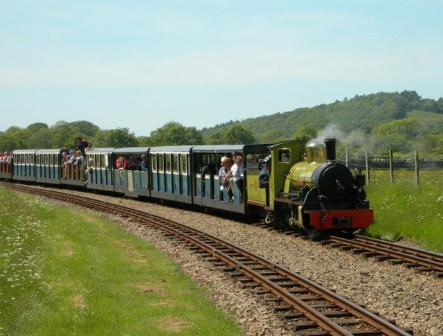 Northern Rock, La'al Ratty steam engine